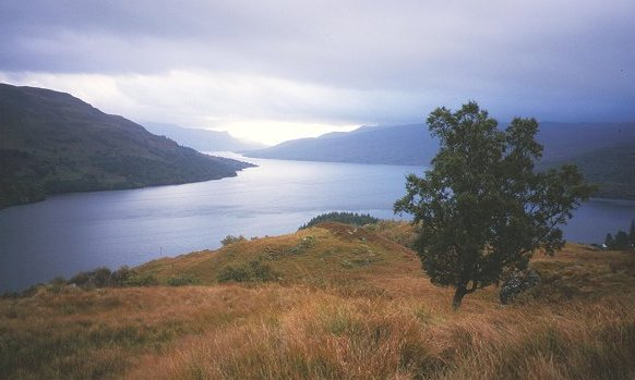 Loch Katrine. Taken just above Stronachlachar, looking eastward along the length of the loch.